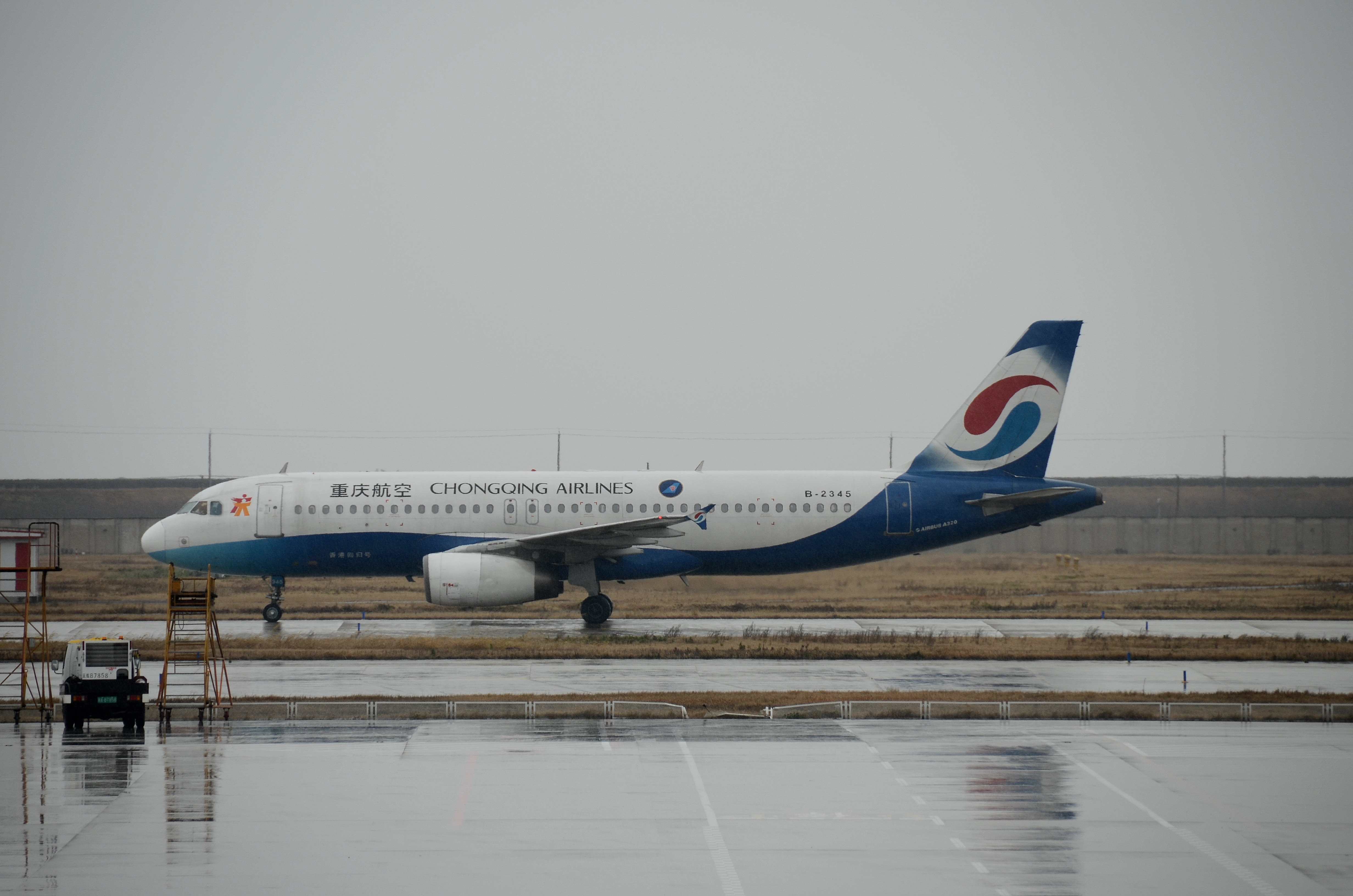 Chongqing_Airlines_at_Shanghai_PuDong_Airport.JPG